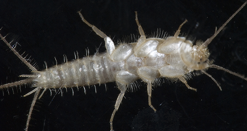 Silverfish (underside). Probably of genus Ctenolepisma, possibly species C. longicaudata ("Grey Silverfish").